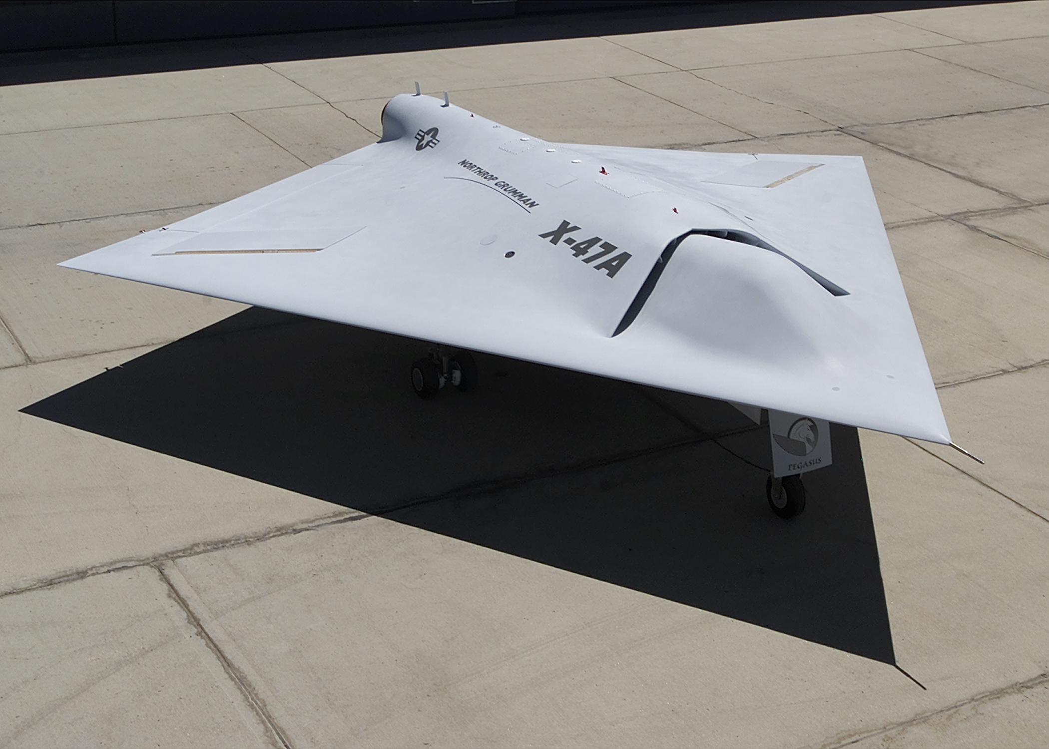 X-47A rollout, front quarter view